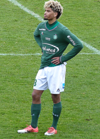 Mahdi Camara playing for Saint Etienne reserves in March 2018 in a match at home against Chambéry.